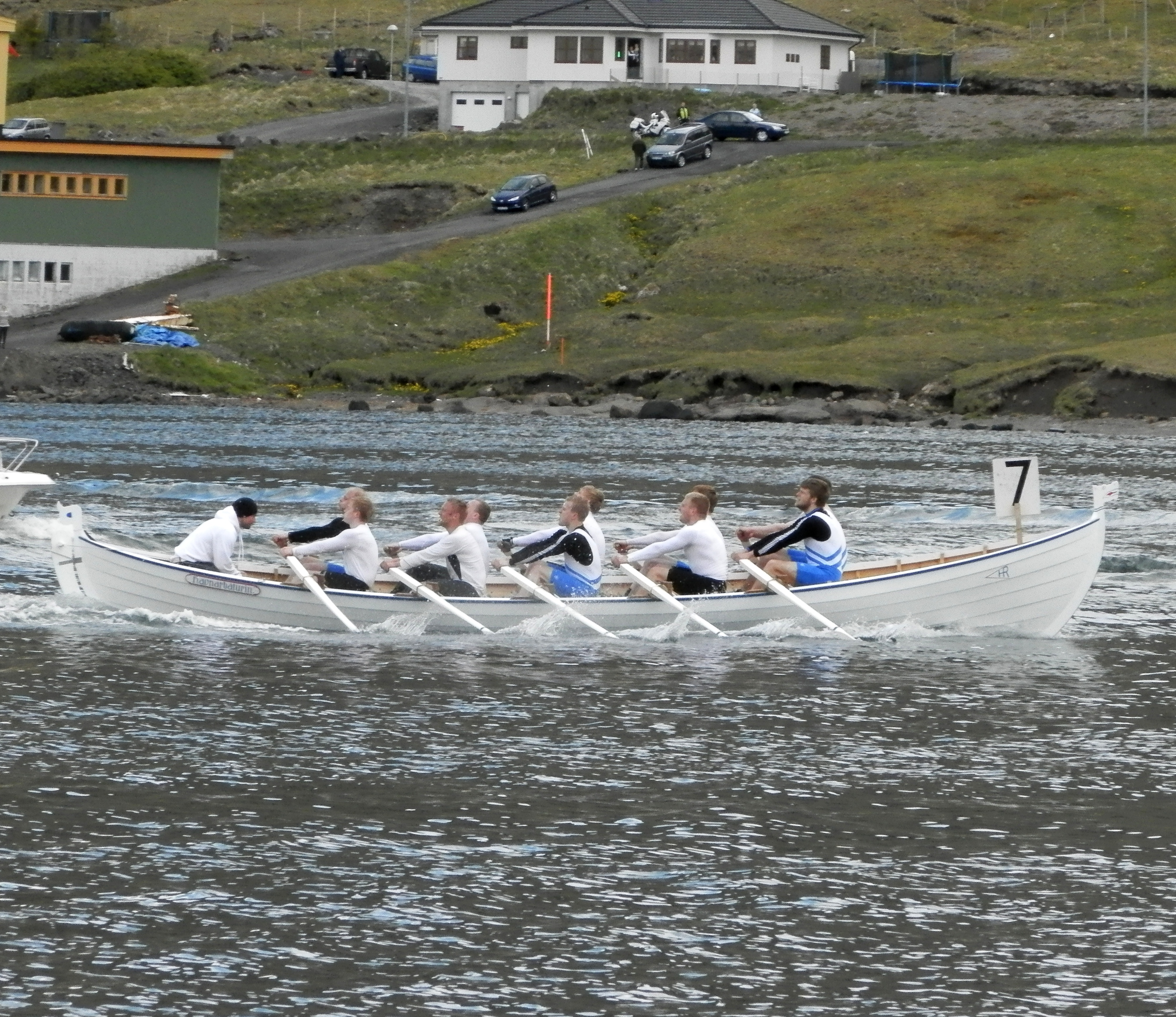 Havnarbáturin is a Faroese rowing boat for 10 rowers + 1 coxswain. It belongs to the rowing club from Tórshavn, which is called Havnar Róðrarfelag. This photo is from Sundalagsstevna 2012 in Kollafjørður. It is the most winning 10-mannafar in the period 1973-2011 with 53 gold, 54 silver and 41 bronze. Havnarbáturin has won 13 Faroese Championships, which is the record for this type of boat. Føroyskt: Havnarbáturin hjá Havnar Róðrarfelag er mest vinnandi 10-mannafar síðan 1973, tá hugt verður eftir øllum teimum einstøku FM róðrunum. Teir hava vunnið 53 gull, 54 silvur og 41 bronsu í tíðarskeiðnum 1973-2011. Tá tað snýr seg um at vinna FM er Havnarbáturin eisini nummar eitt hjá 10-mannaførunum við 13 FM frá 1973 til 2011. Henda myndin er frá Sundalagsstevnu 2012, tá Havnarbáturin endaði á einum fjórðaplássi.